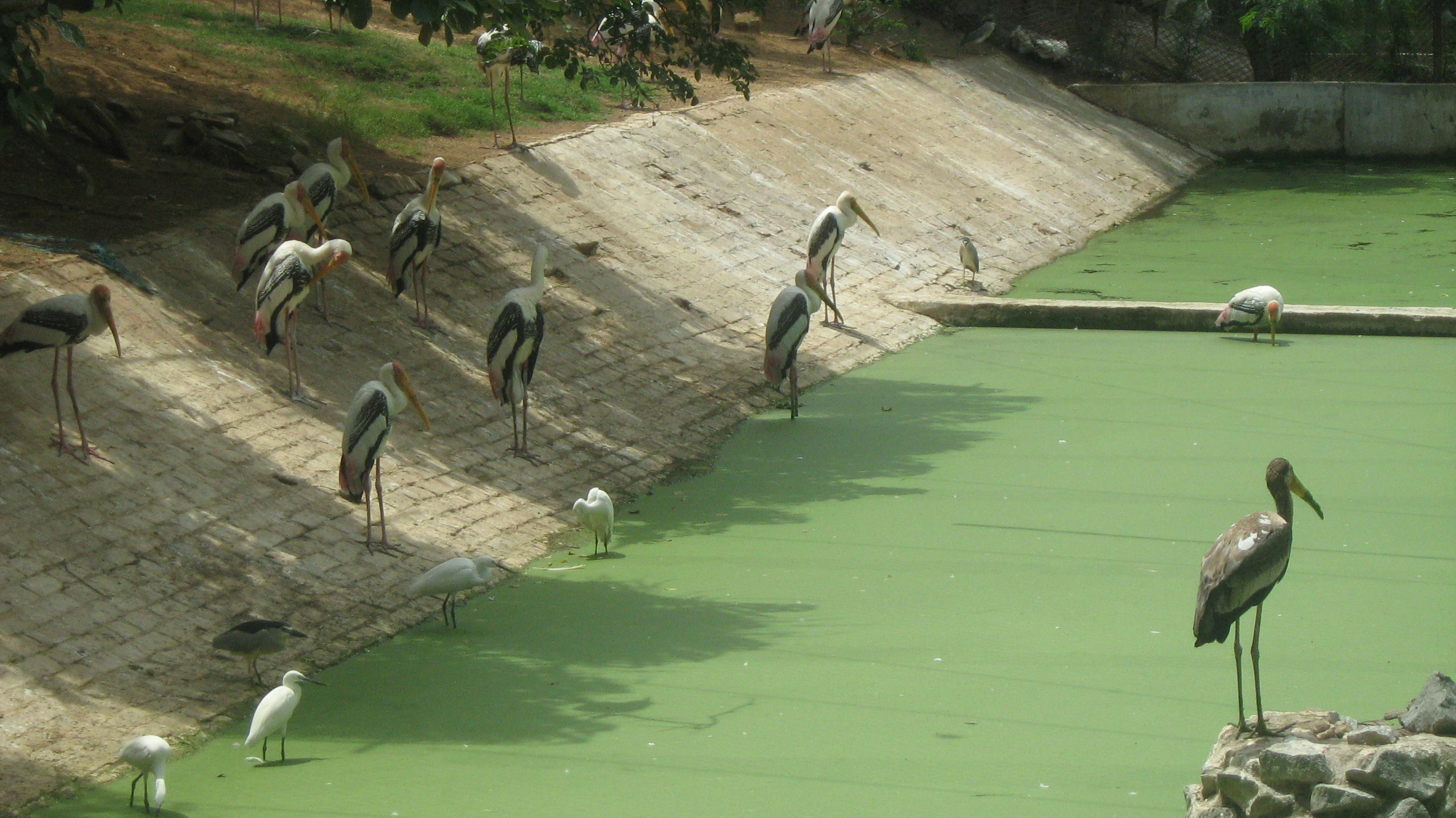 Painted Storks at the Vandalur zoo (Arignar Anna Zoological Park) Tamil Nadu.